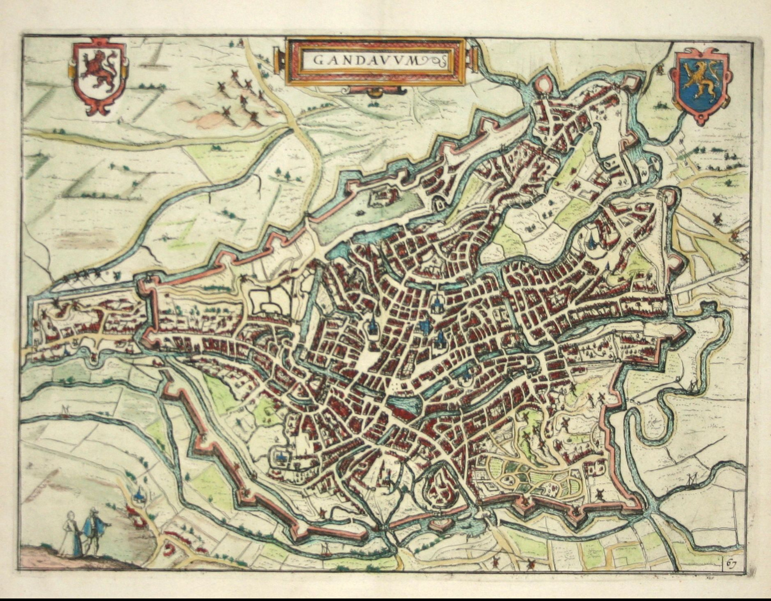 Map of Ghent, 1612 Publisher : GUICCIARDINI L. Title : Gandauum Ghent Published in Amsterdam 1612. Size : 9.1 x 12.2 inches. / 23.0 x 31.0 cm. Colouring : Coloured. Condition : Good condition. Based on Braun & Hogenberg's 1572 plan